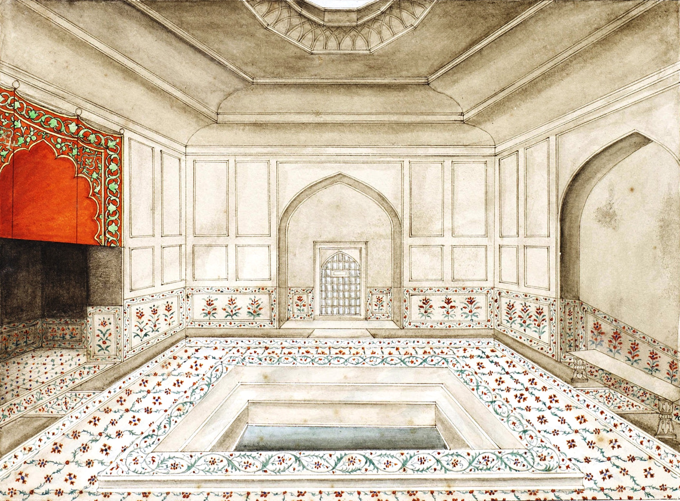 Two views: The warm or inner room of the Bath; the cold or outer room of the Bath in the Red Fort. A series of 31 paintings by Ghulam Ali Khan (fl. 1817-55), consisting of views of monuments in and around Delhi, and including four portraits of the last Mughal Emperor Bahadur Shah II (reg. 1837-58) and his sons. Watercolour and gold on paper, black margin rules, three title pages, three sheets of portraits, all with identifying inscriptions in English and in Persian in nasta'liq script in black ink, the portraits with further inscriptions in nasta'liq script with the date November 1852 (Christian date written in Arabic), in later mounts, loose in contemporary green leather-covered despatch box, the lid embossed in gold DELHEE 1854. Size paintings 290 x 215 mm. and slightly smaller; mounts 318 x 394 mm.; box 435 x 365 x 110 mm.